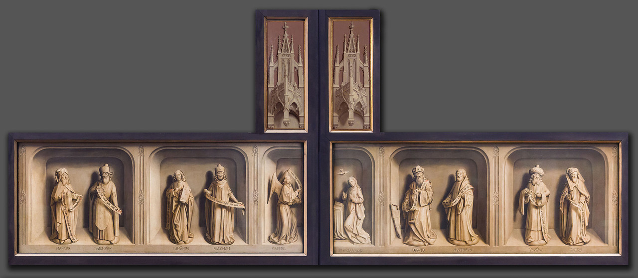 Simon Marmion, Saint Bertin Altarpiece, ca 1459, Reconstruction of side B